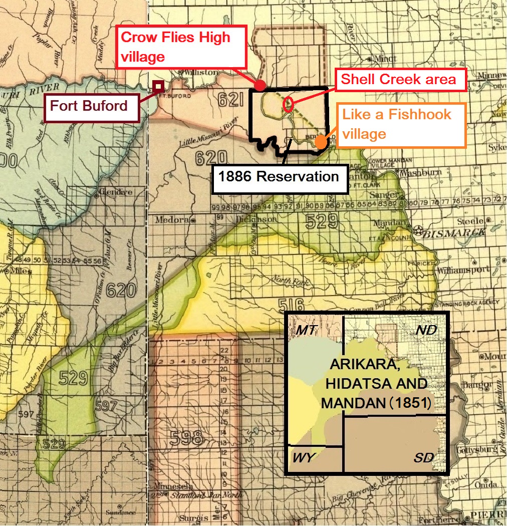 The village of Hidatsa chief Crow Flies High and the 1886 boundaries for the Fort Berthold Indian Reservation in North Dakota. Also Fort Buford and Like a Fishhook village